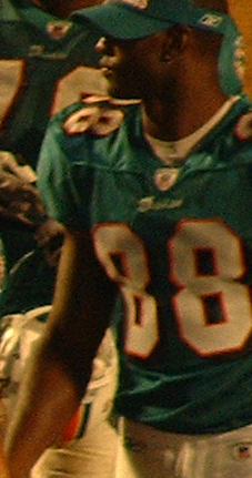 If used somewhere other than Wikipedia, Nelson, by name.